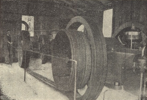 Compressor used in the perfuration of the Lapa Tunnel, near the Trindade Railway Station, in Porto, Portugal. This image was published in the Gazeta dos Caminhos de Ferro magazine No. 1381, of 1st July 1945, and scanned by the Hemeroteca Municipal de Lisboa.